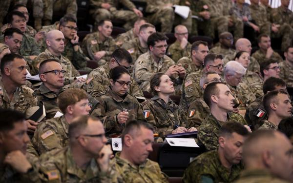 Multinational Leaders conduct a Combined Arms Rehearsal during JWA 19 at JBLM.